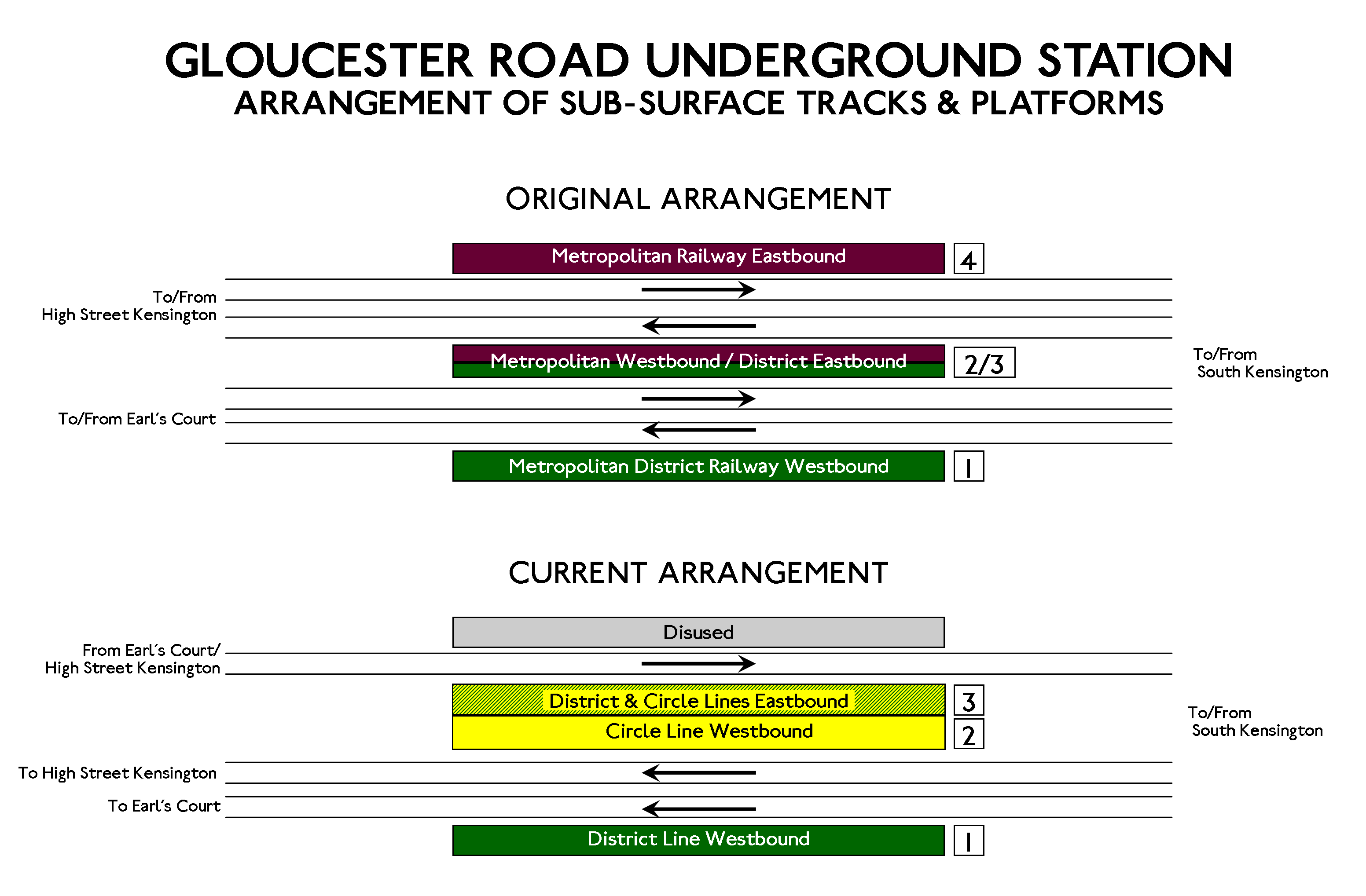 Diagram of the original and current layouts of the sub-surface District Line and Circle Line platforms at London Underground's Gloucester Road station.